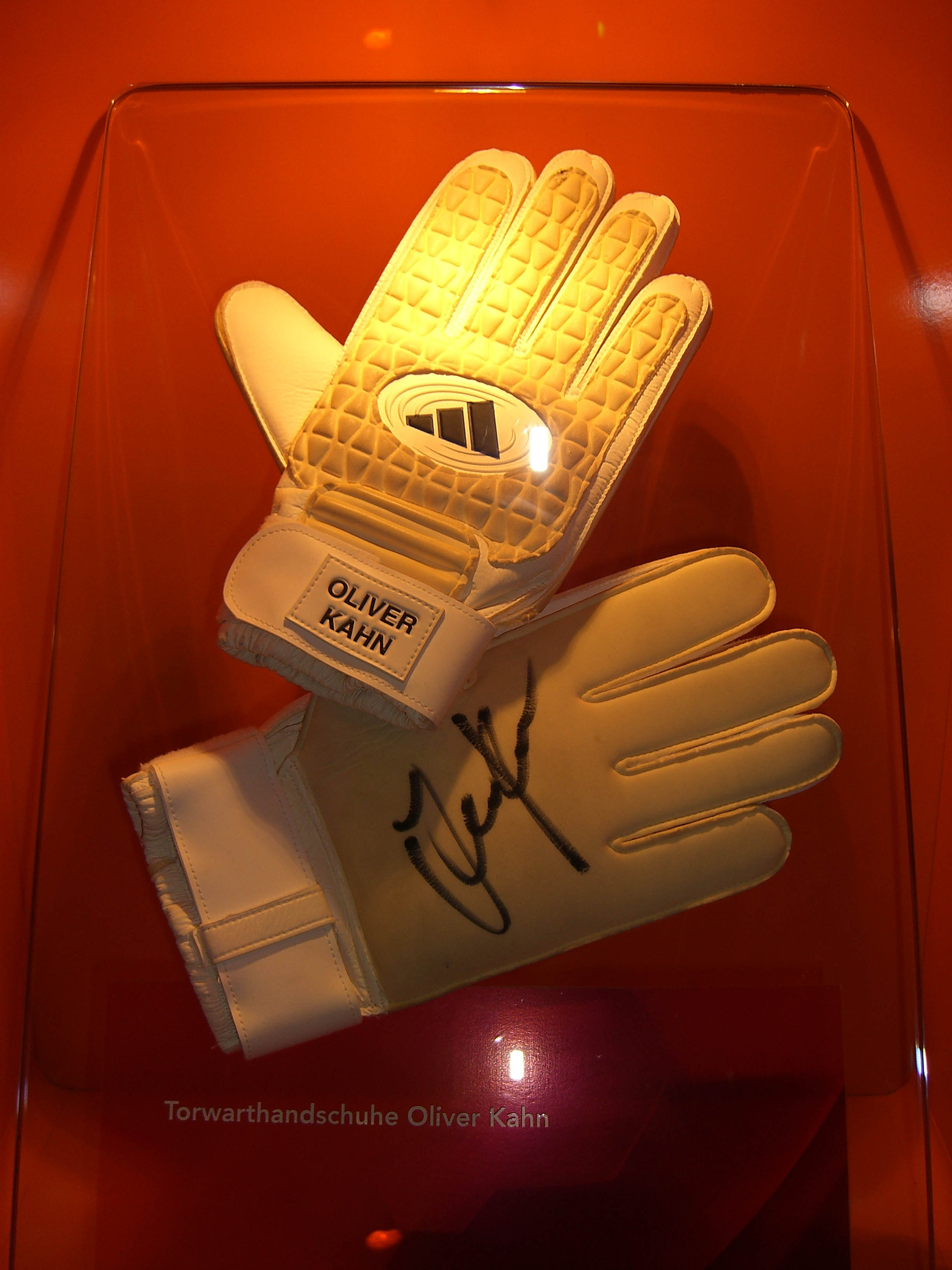 Football gloves of Oliver Kahn